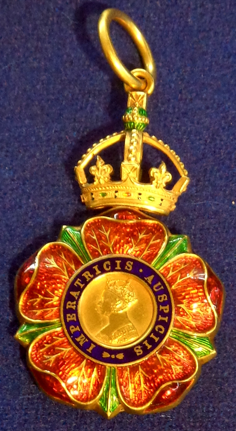 Order of the Indian Empire, Companion's badge, 1887-1947. United Kingdom. The exhibition of the Tallinn Museum of Orders of Knighthood, Estonia.